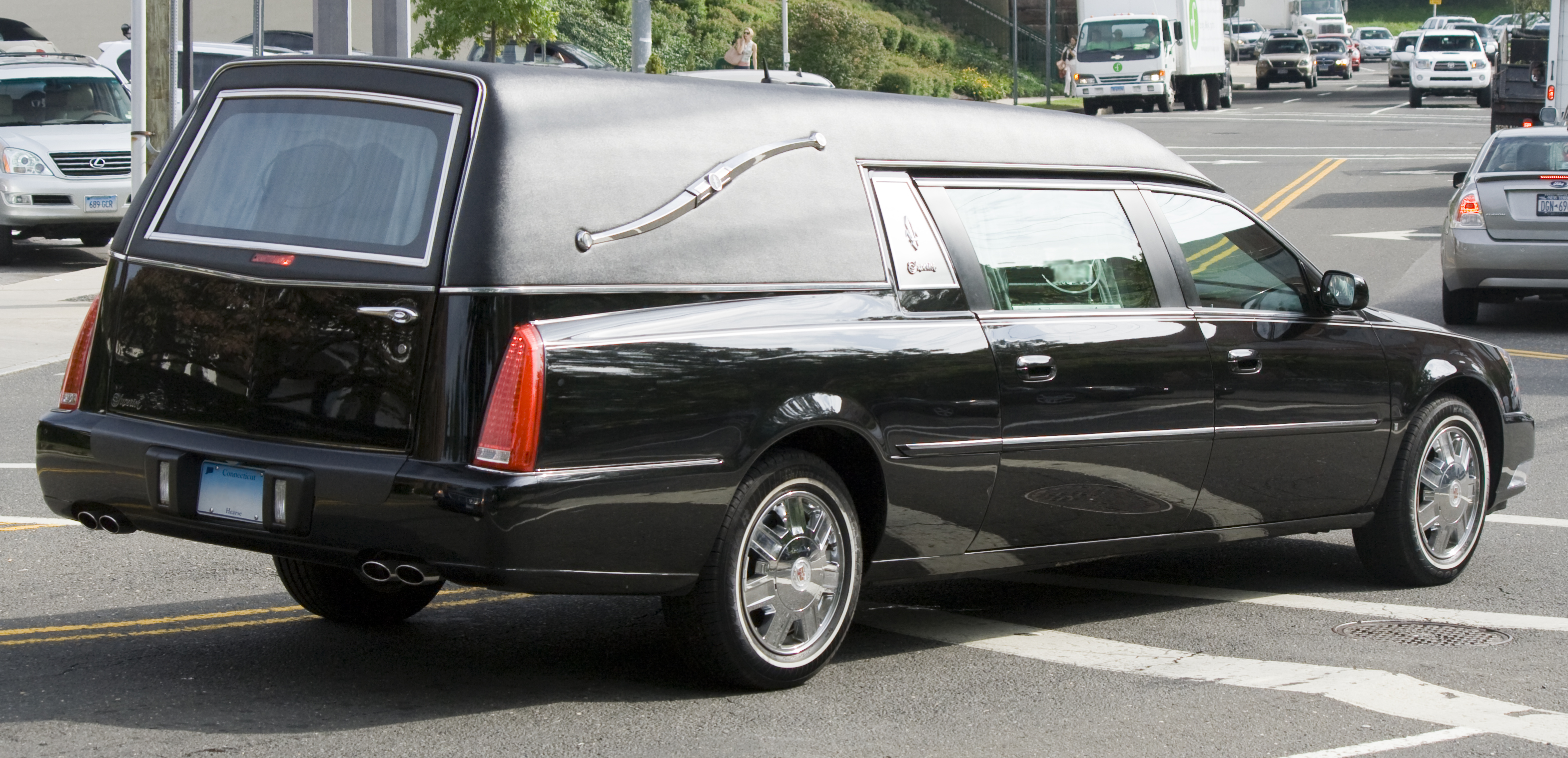 Cadillac DTS-based hearse by Superior (Accubuilt)